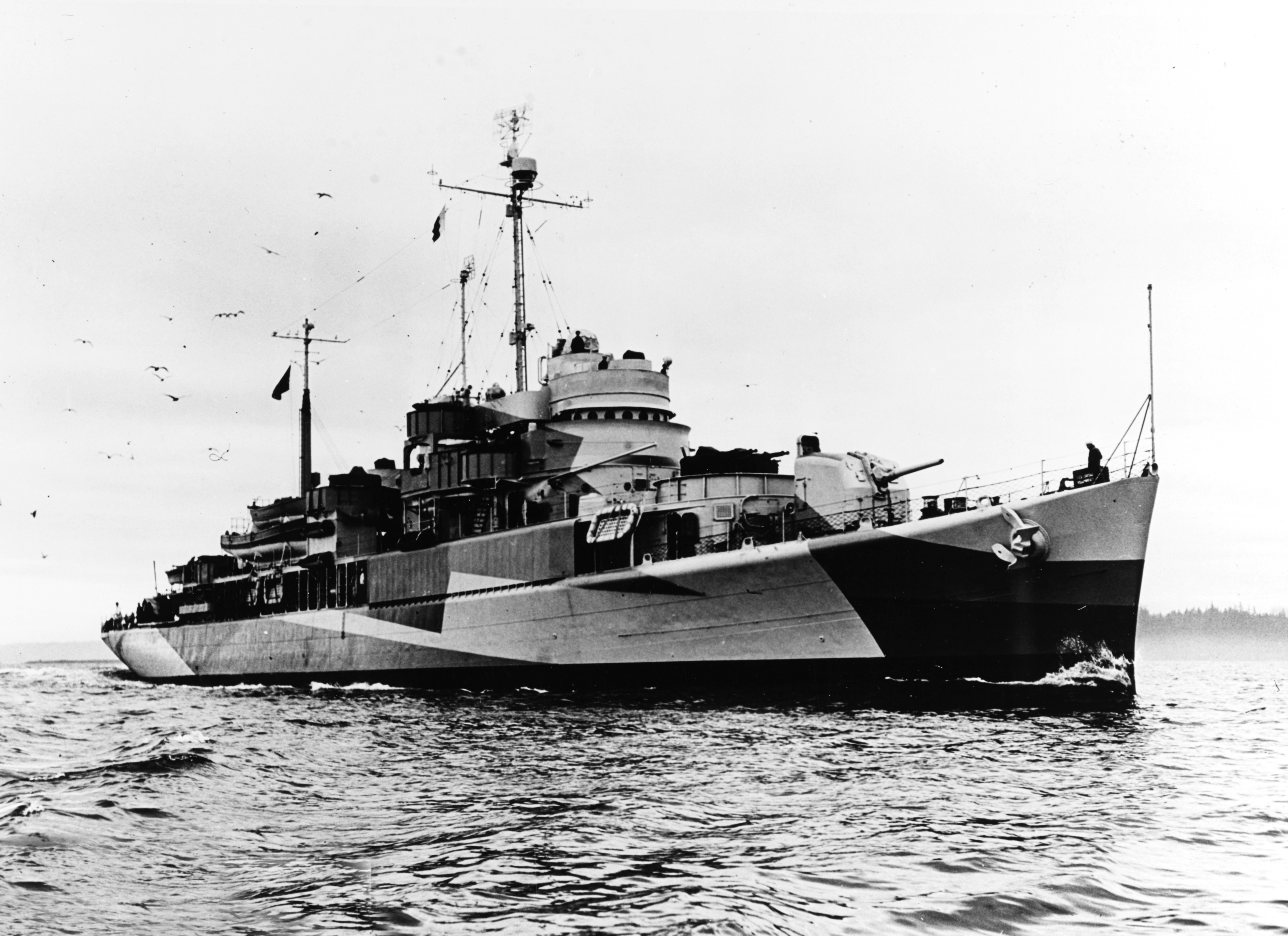 The U.S. Navy small seaplane tender USS Corson (AVP-37) off the Lake Washington Shipyards, Houghton, Washington (USA), on 29 November 1944. The ship is wearing Camouflage Measure 33, Design 1F. She was commissioned four days later.